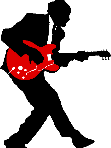 Icon for rock music on Wikipedia. Silhouetted rock 'n' roll guitar player. PNG version